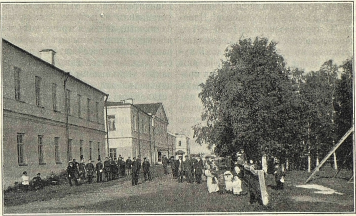 Arkhangelsk seminary. Illustration from Orthodox Theological Encyclopedia (1900—1911)